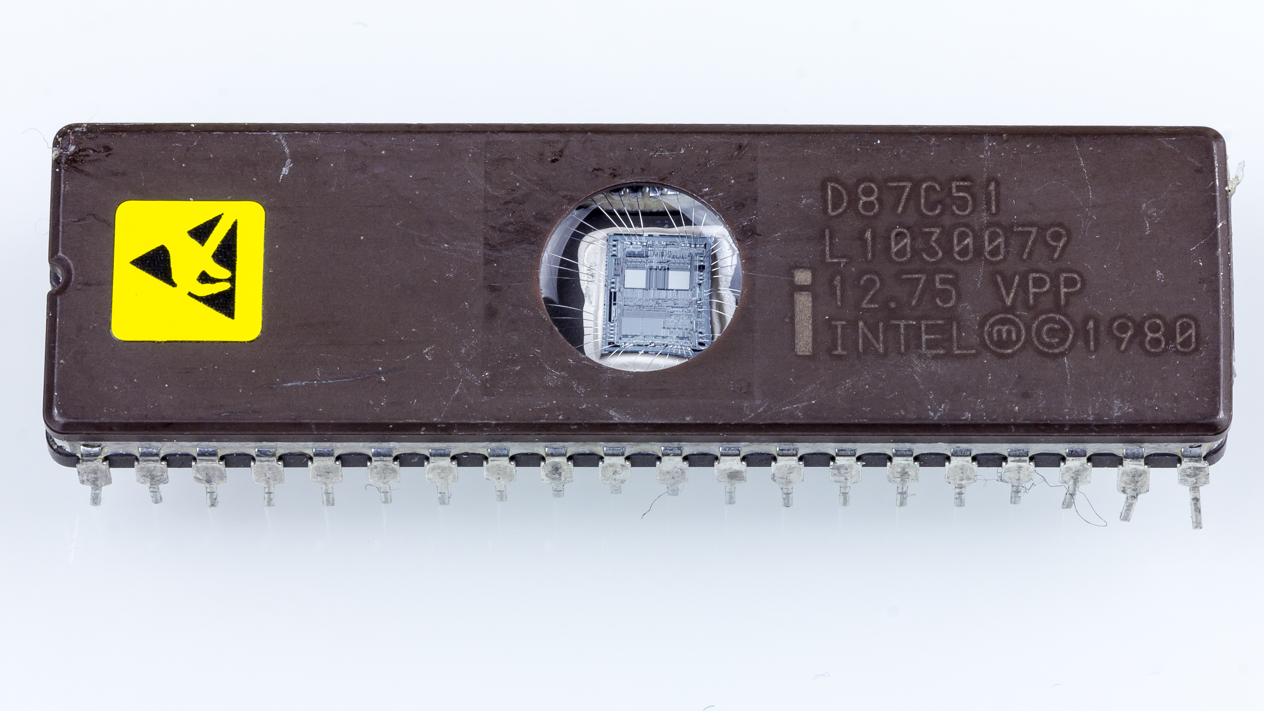 Intel D87C51 - CHMOS Single-Chip 8-bit Microcontroller. Fabricated on Intel's CHMOS III-E technology. Being a member of the MCS 51 controller family. Package Type: Cerdip